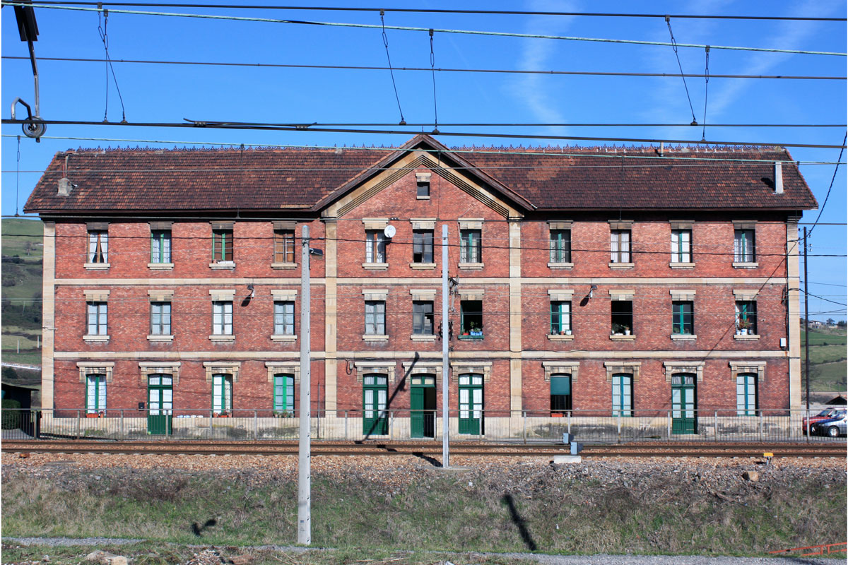 Former residence for railway employees in Villabona, Llanera, Asturias, Spain